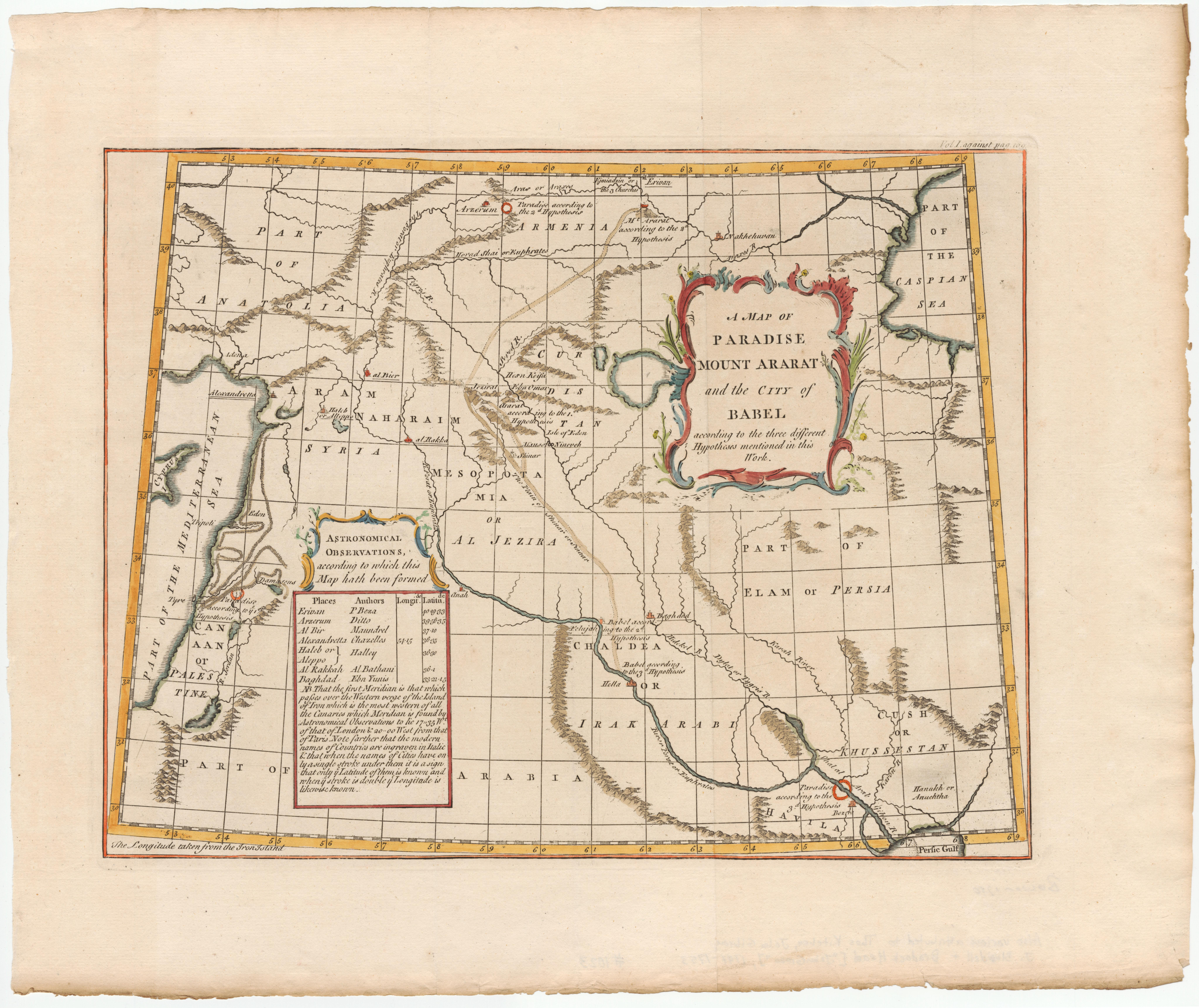 Map of Paradise according to three different Hypotheses.